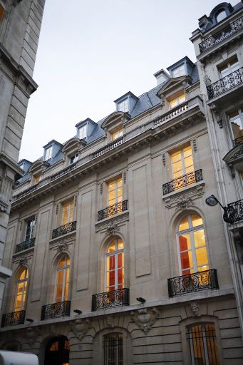 Palatine Bank Headquarters, rue d'Anjou, VIIIe arrondissement, Paris, France